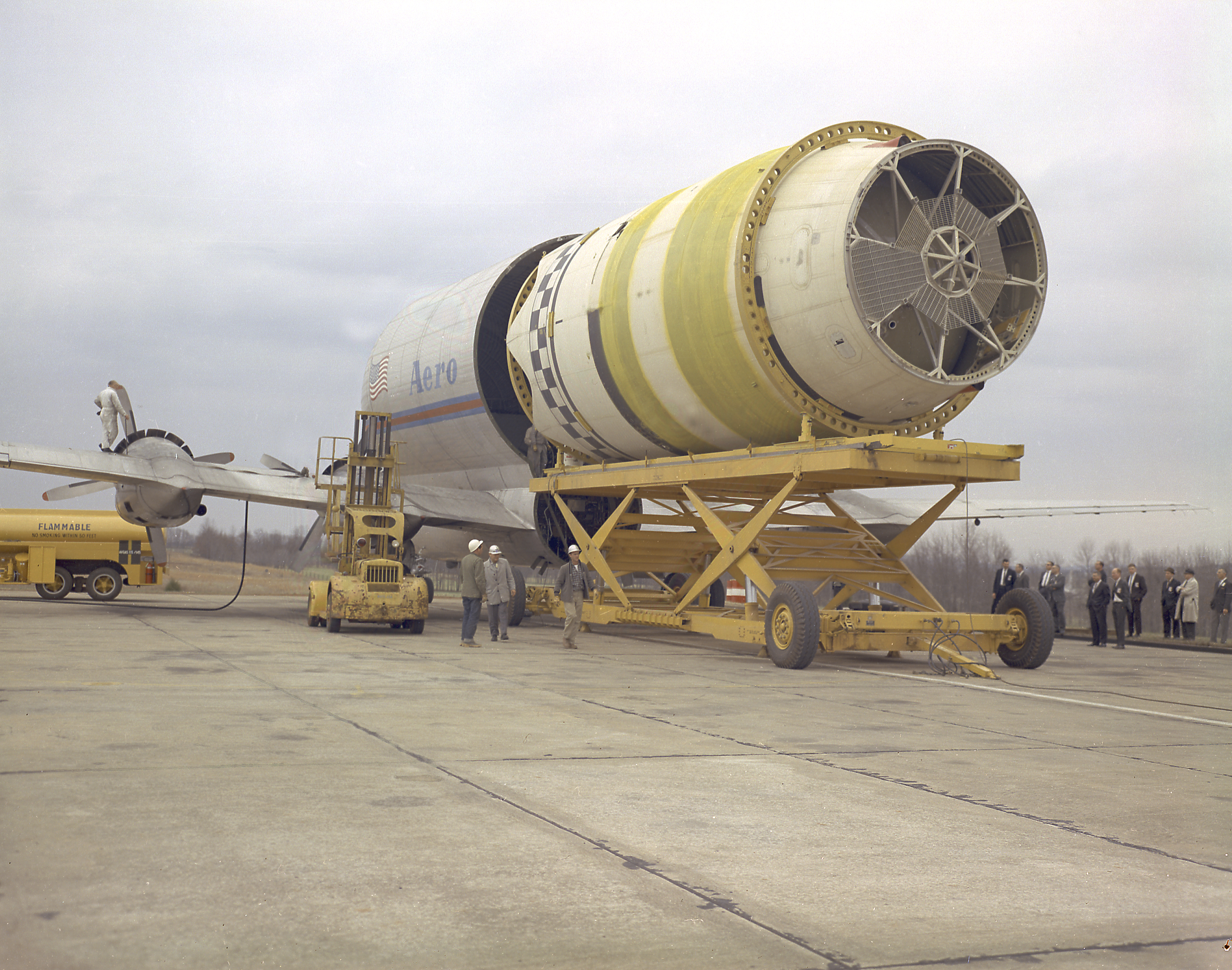 Saturn I's S-IV stage loaded onto a modified Boeing B-377 Stratocruiser for transport.